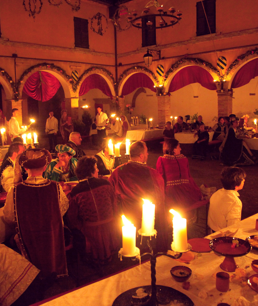 Banchetto Rinascimentale Mondavio